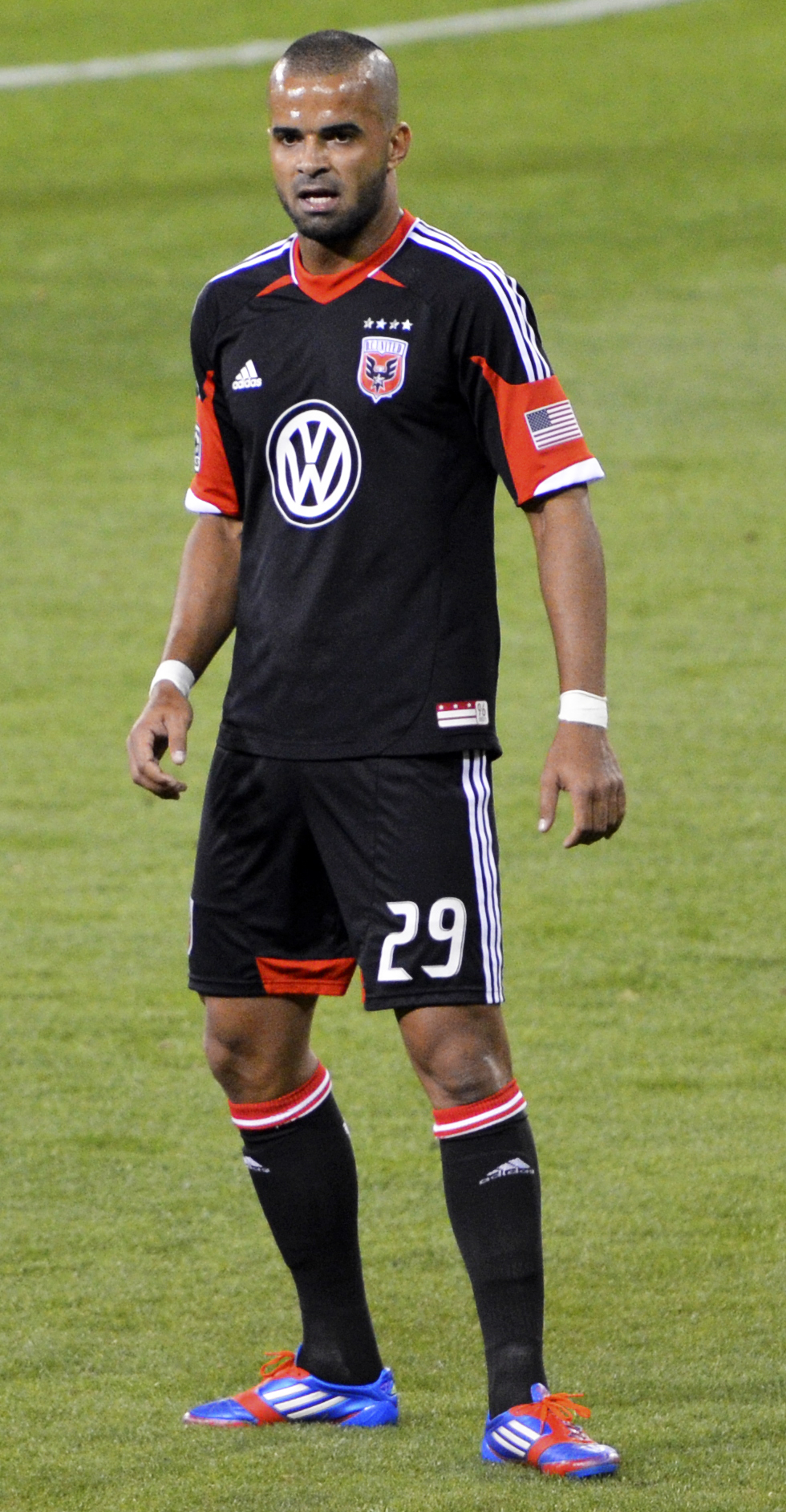 Maicon Santos in a game between the DC United and the Seattle Sounders on April 7, 2012 at RFK, Washington DC.